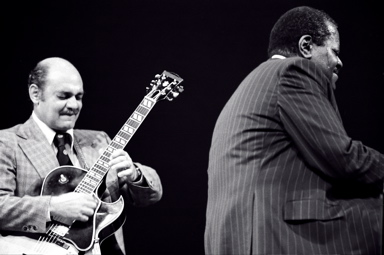 Oscar Peterson Eastman Theatre Rochester, N.Y.